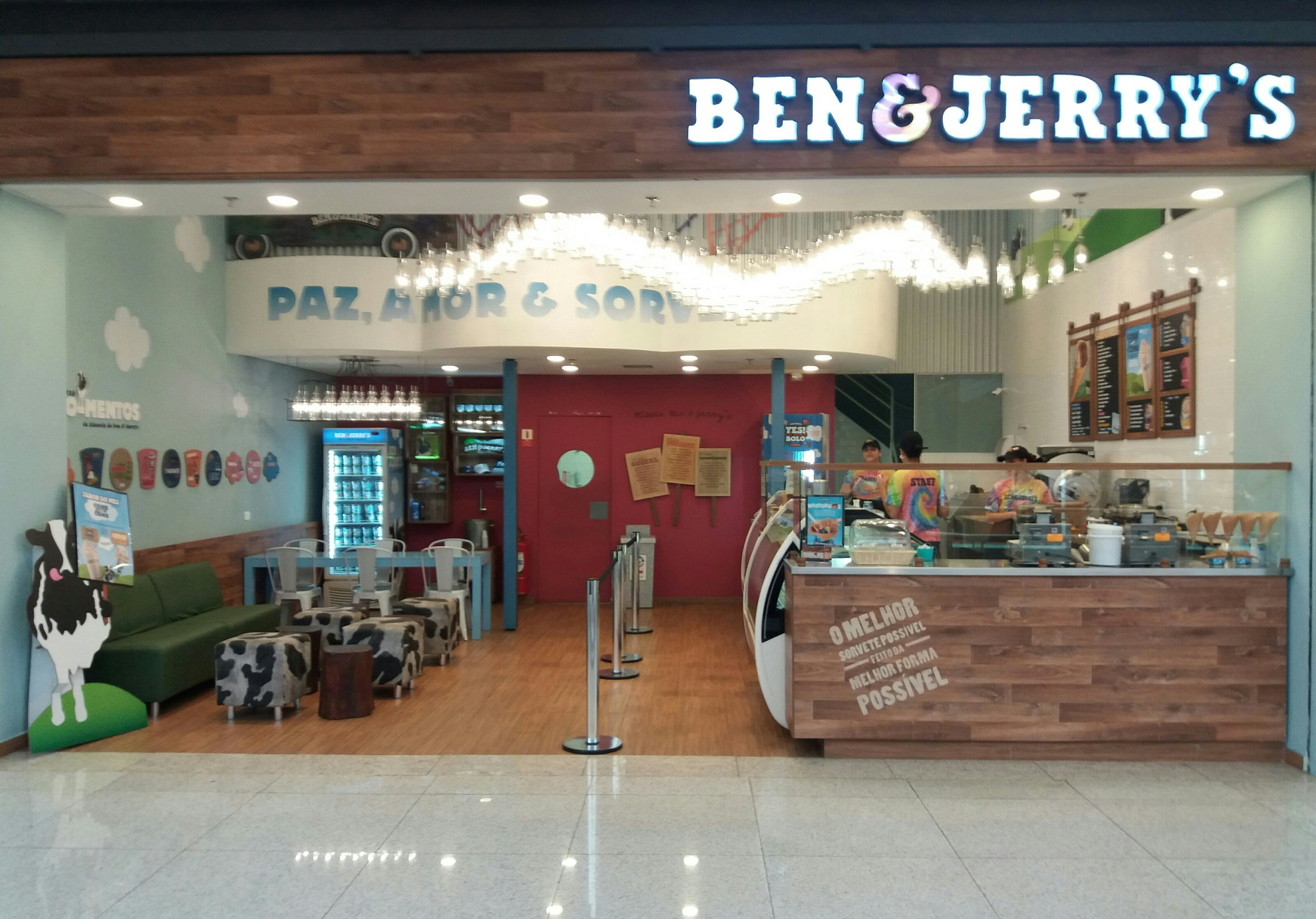 A Ben & Jerry's shop in Shopping Anália Franco, São Paulo, São Paulo, Brazil.